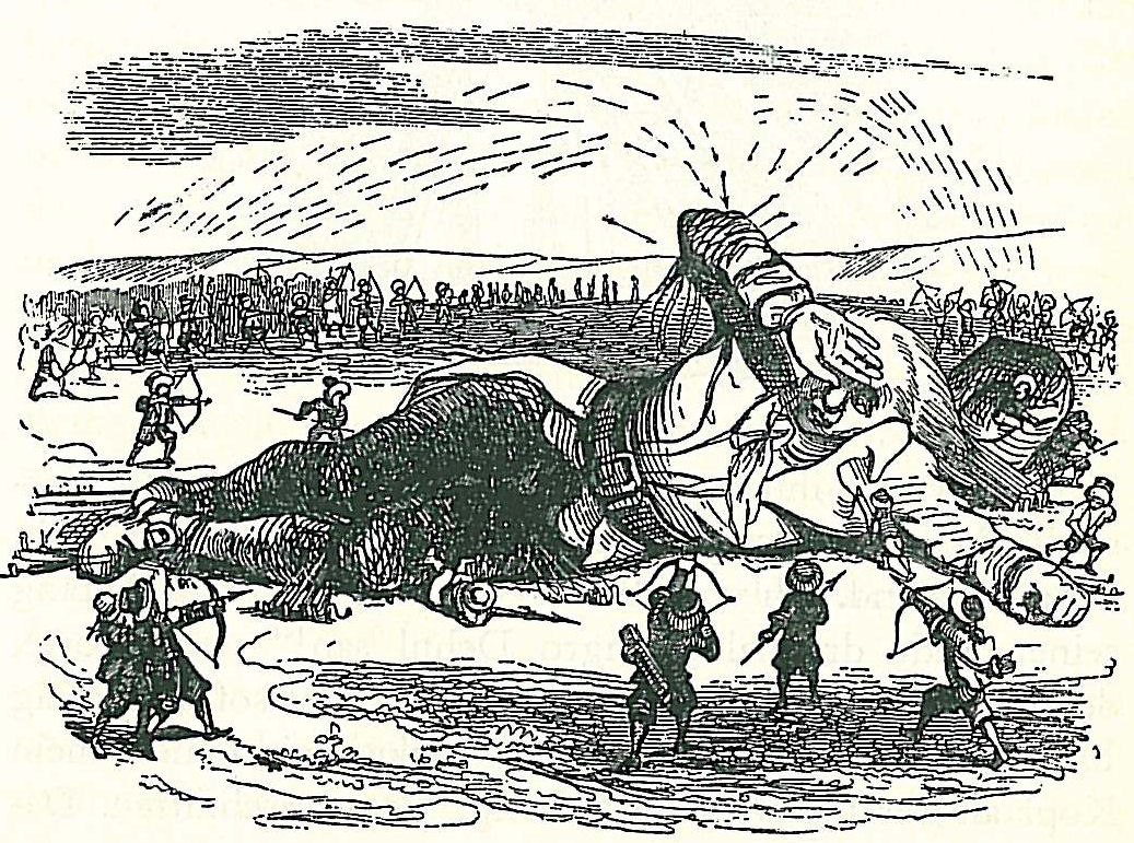 illustration of Jonathan Swift’s novel Gulliver’s Travels by Grandville